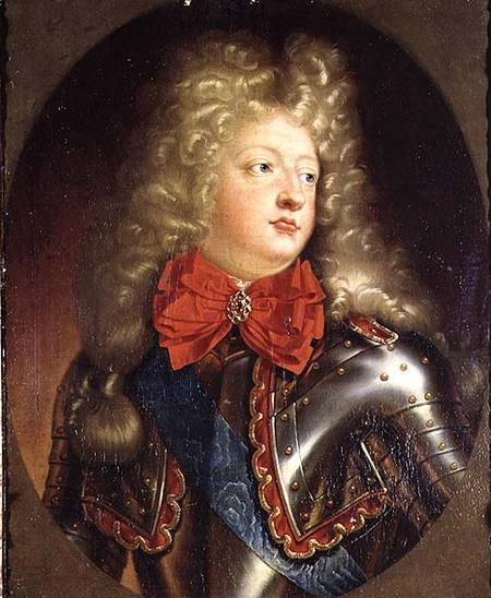 Portrait of Louis, Grand Dauphin, son of Louis XIV.